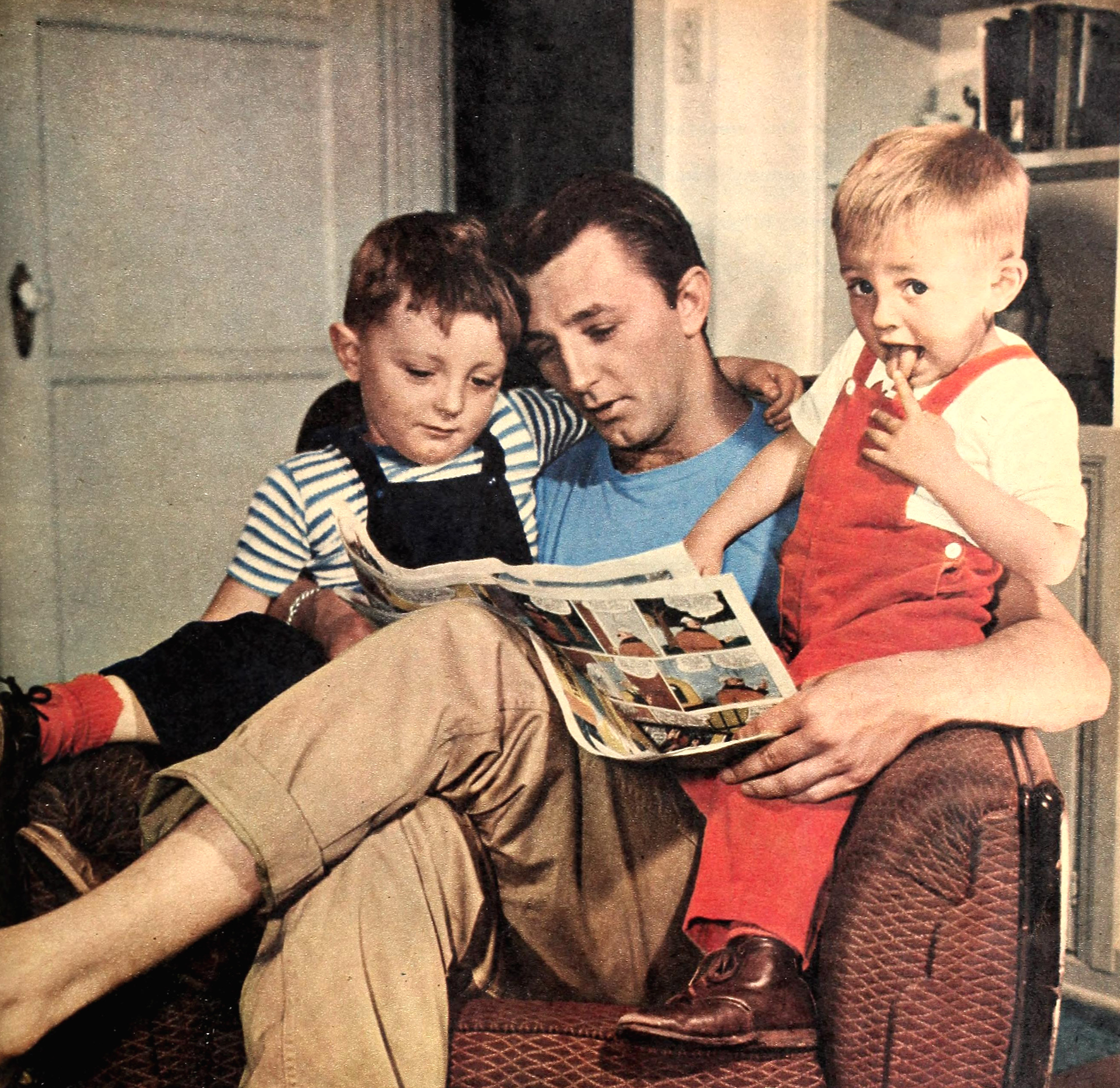 Photo of Robert Mitchum at home reading with his two sons, James Mitchum (left) and Christopher Mitchum (right).